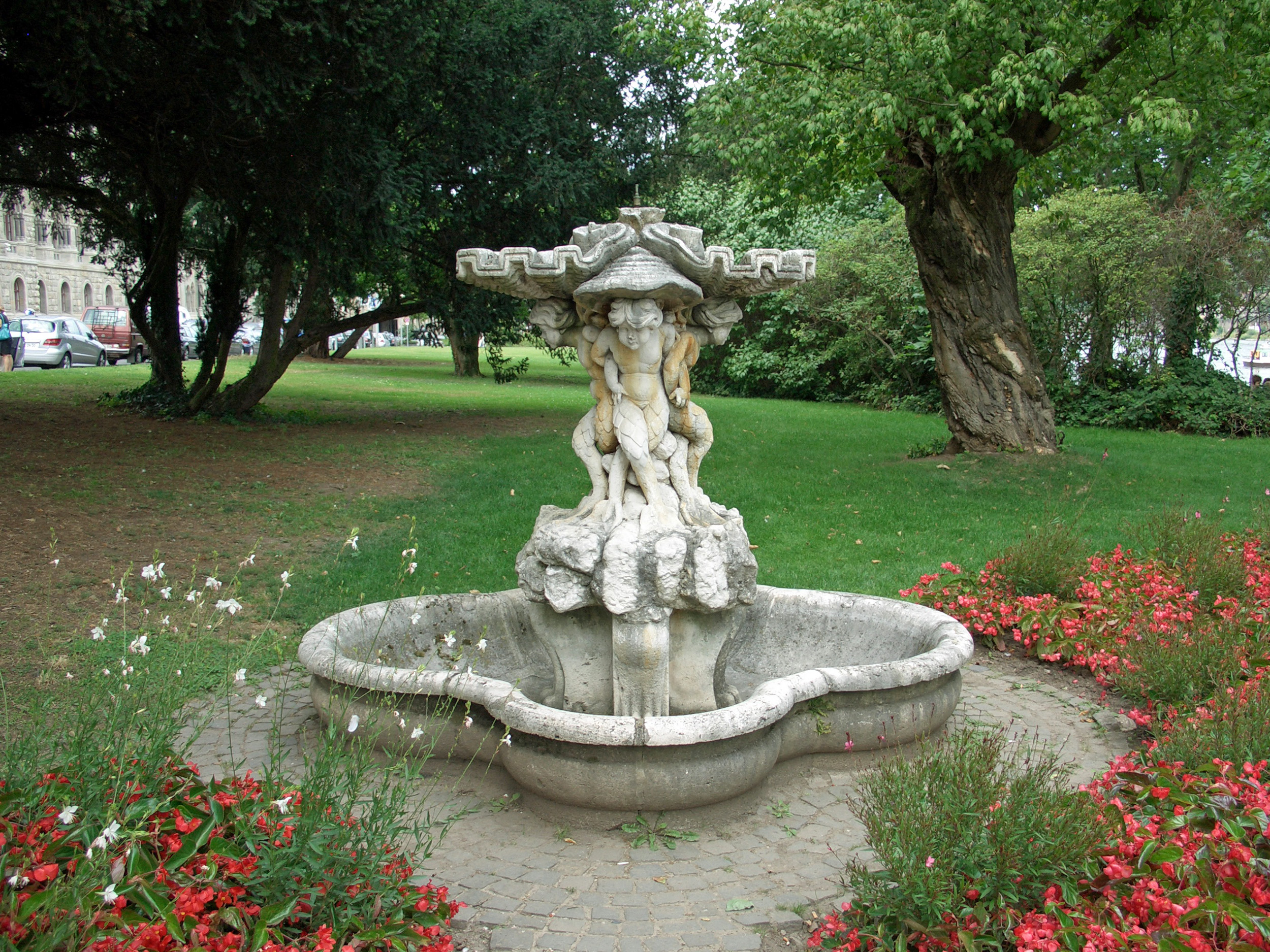 Rhine park in Koblenz